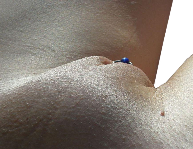 Based off